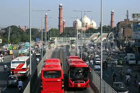 Busses collecting and dropping off passengers at Central Station near Badshahi Mosque, Lahore